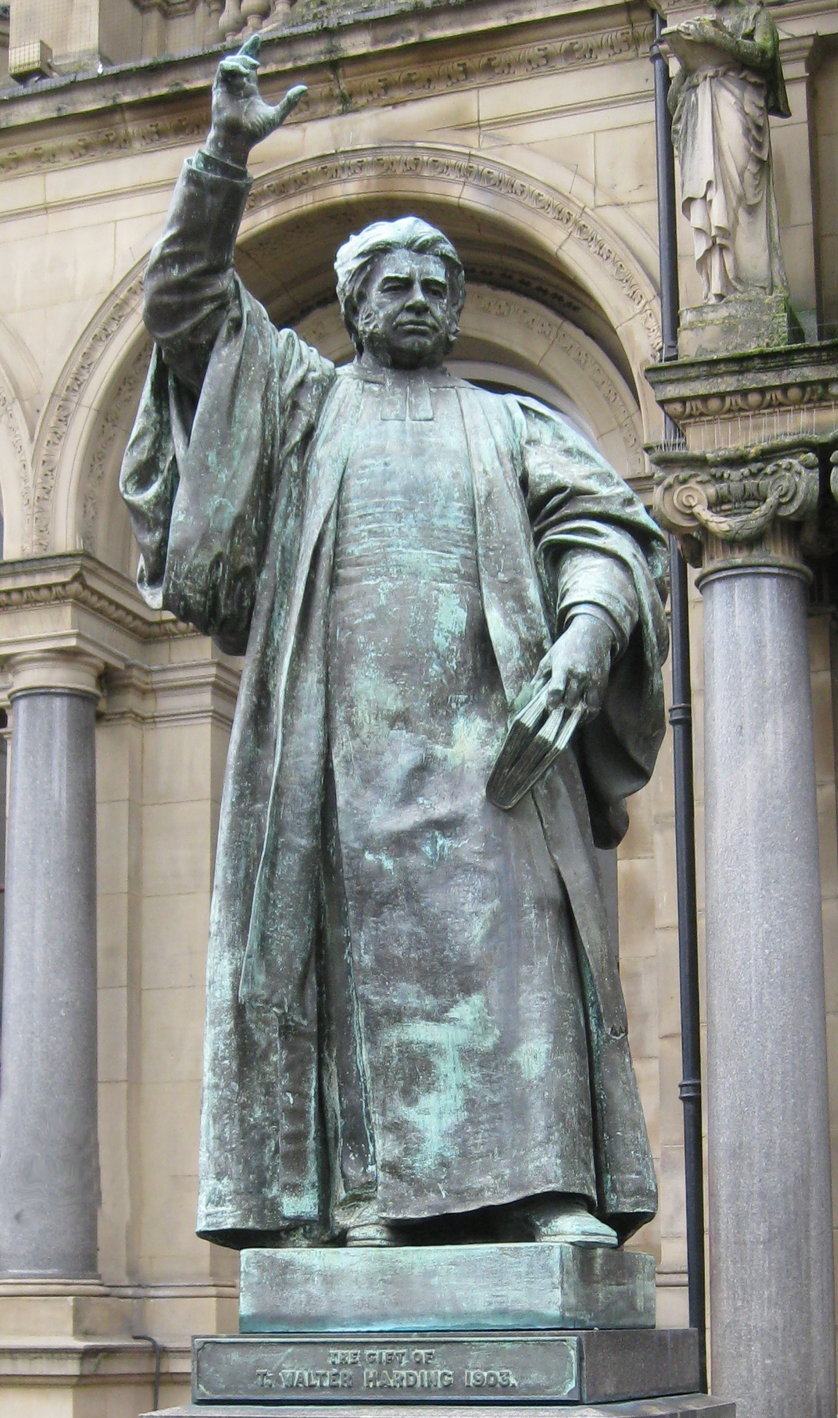 Statue of Dr Walter Farquhar Hook, City Square, Leeds. Bronze by F. W. Pomeroy.